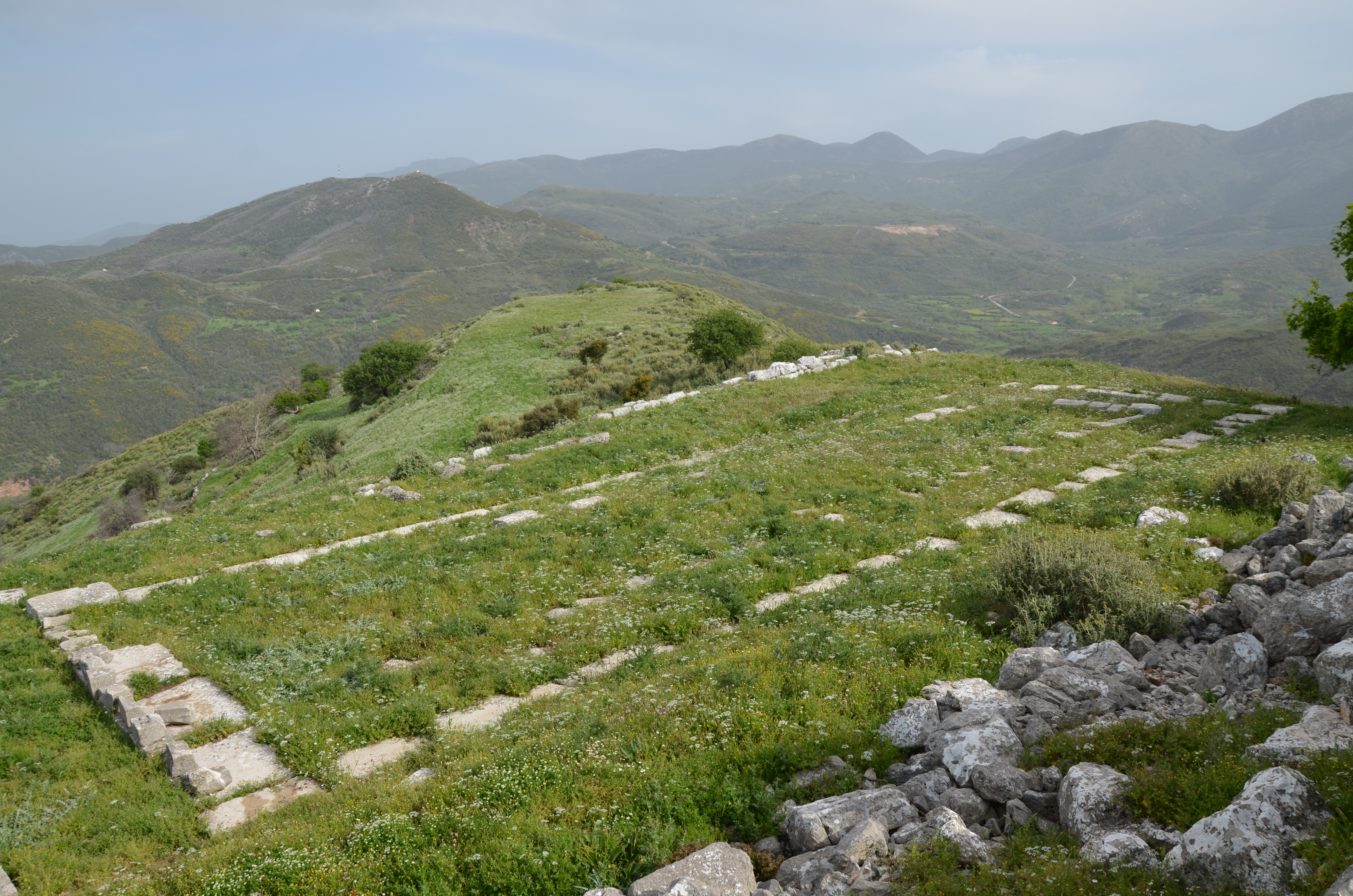 Temple of Athena, built ca. 500-490 BC, oriented north-south because of the configuration of the site, the peristyle consisted of 6 by 15 Doric columns, Alipheira, Greece